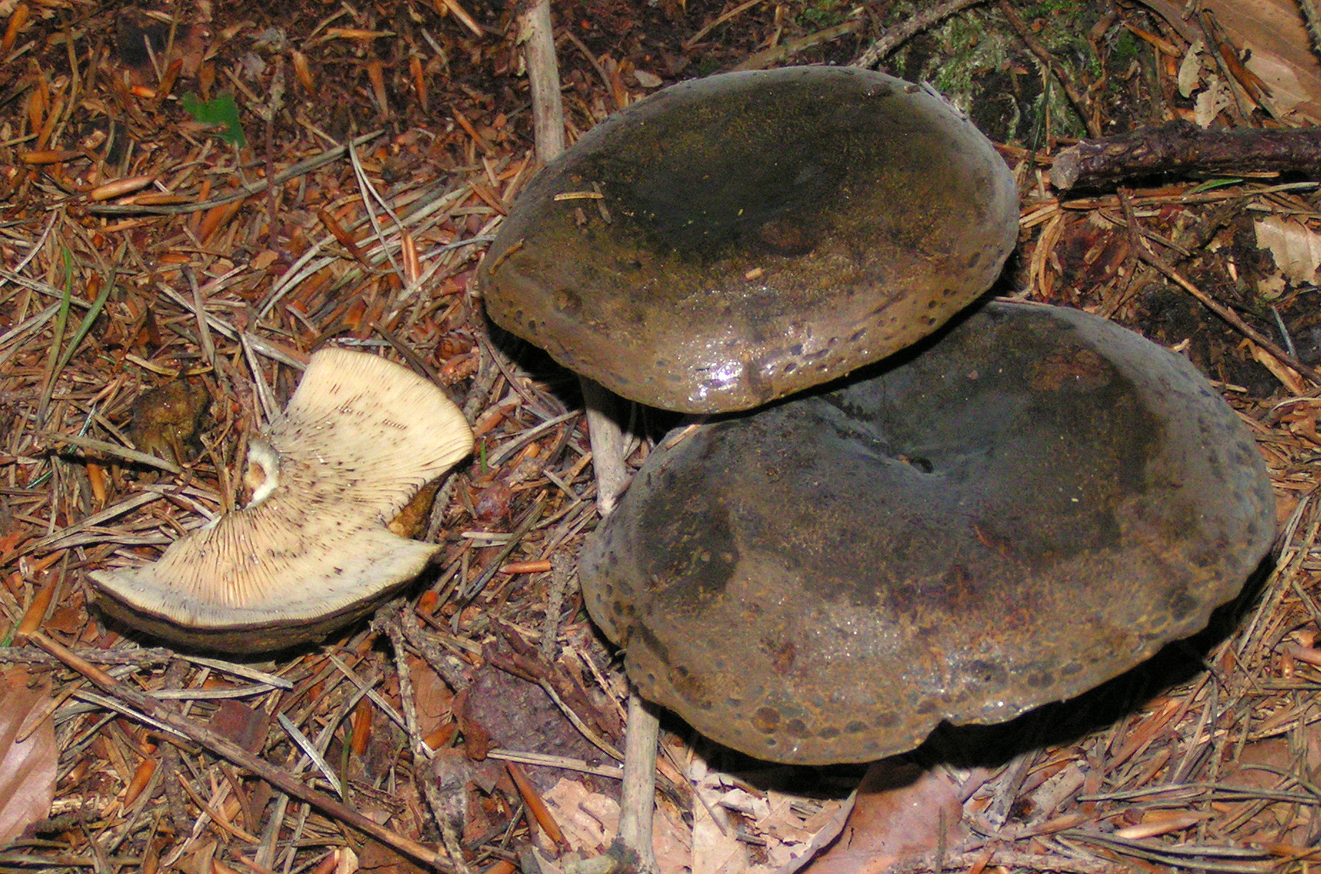 Ugly Milkcap